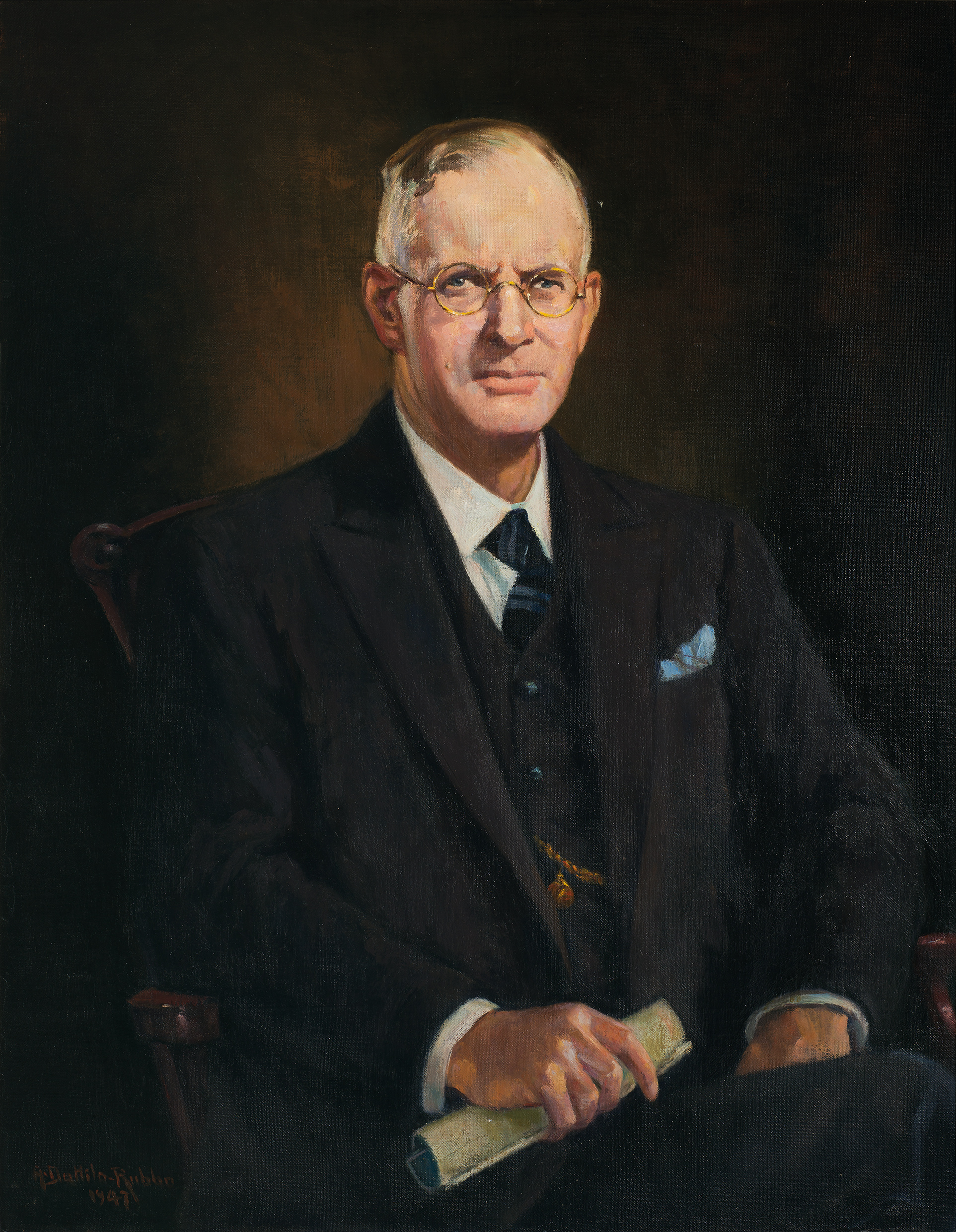 Official Portrait of Prime Minister of Australia John Curtin